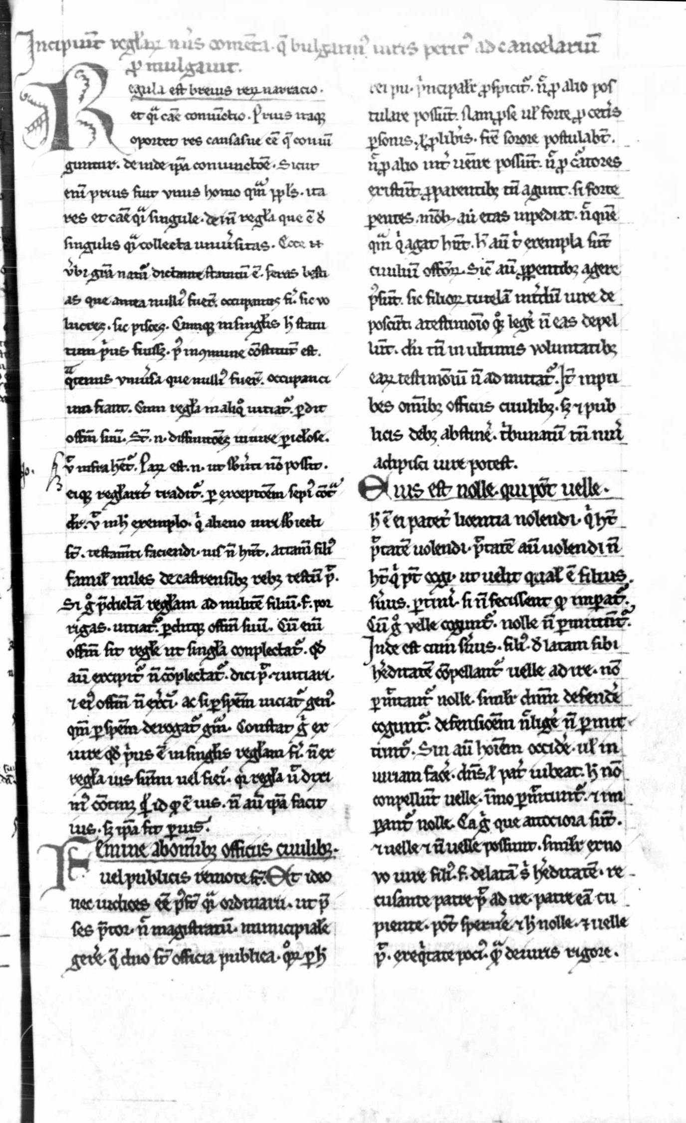 manuscript in latin. Frankfurt am Main, Universitätsbibliothek Johann Christian Senckenberg, Handschriften, Barthol. 127. - secolo 13. : membranaceo ; 235 x 155 mm. ((Dolezalek data il codice "saec. XIII.2"